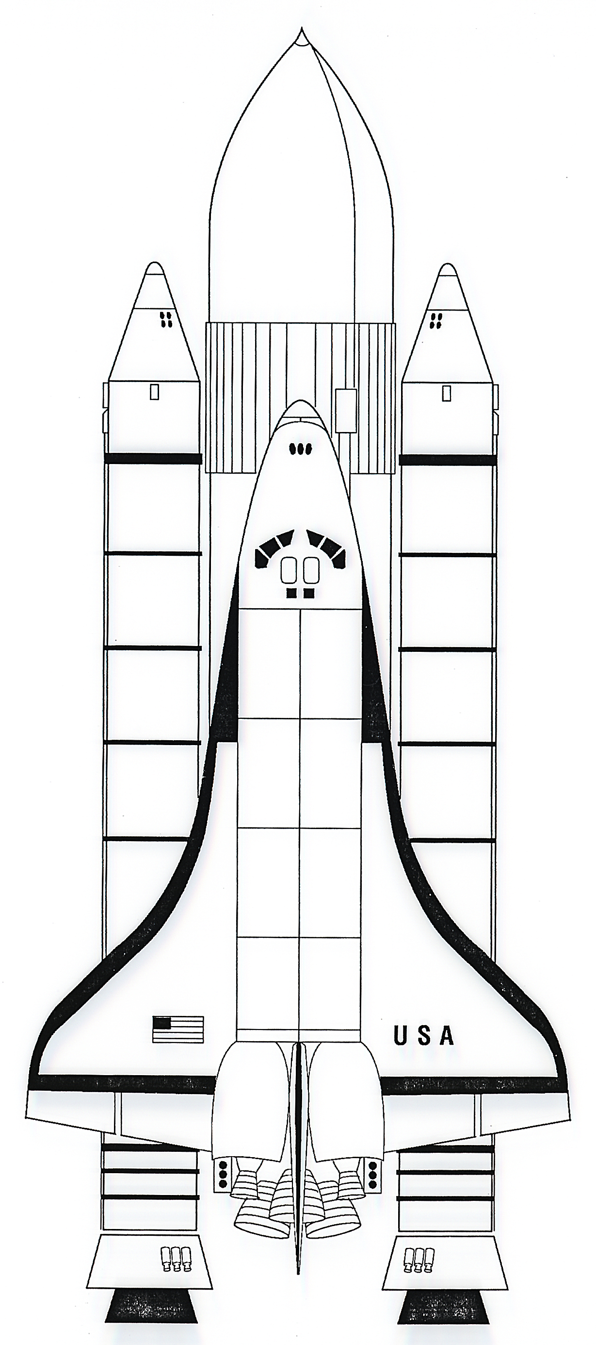 The Apollo program demonstrated that people could travel into space, perform useful tasks there, and return safely to Earth. But space had to be more accessible. This led to the development of the Space Shuttle. The Shuttle's major components are the orbiter spacecraft; the three main engines, with a combined thrust of more than 1.2 million pounds; the huge external tank (ET) that feeds the liquid hydrogen fuel and liquid oxygen oxidizer to the three main engines; and the two solid rocket boosters (SRBs), with their combined thrust of some 5.8 million pounds, that provide most of the power for the first two minutes of flight. Crucially involved with the Space Shuttle program virtually from its inception, the Marshall Space Flight Center (MSFC) played a leading role in the design, development, testing, and fabrication of many major Shuttle propulsion components.